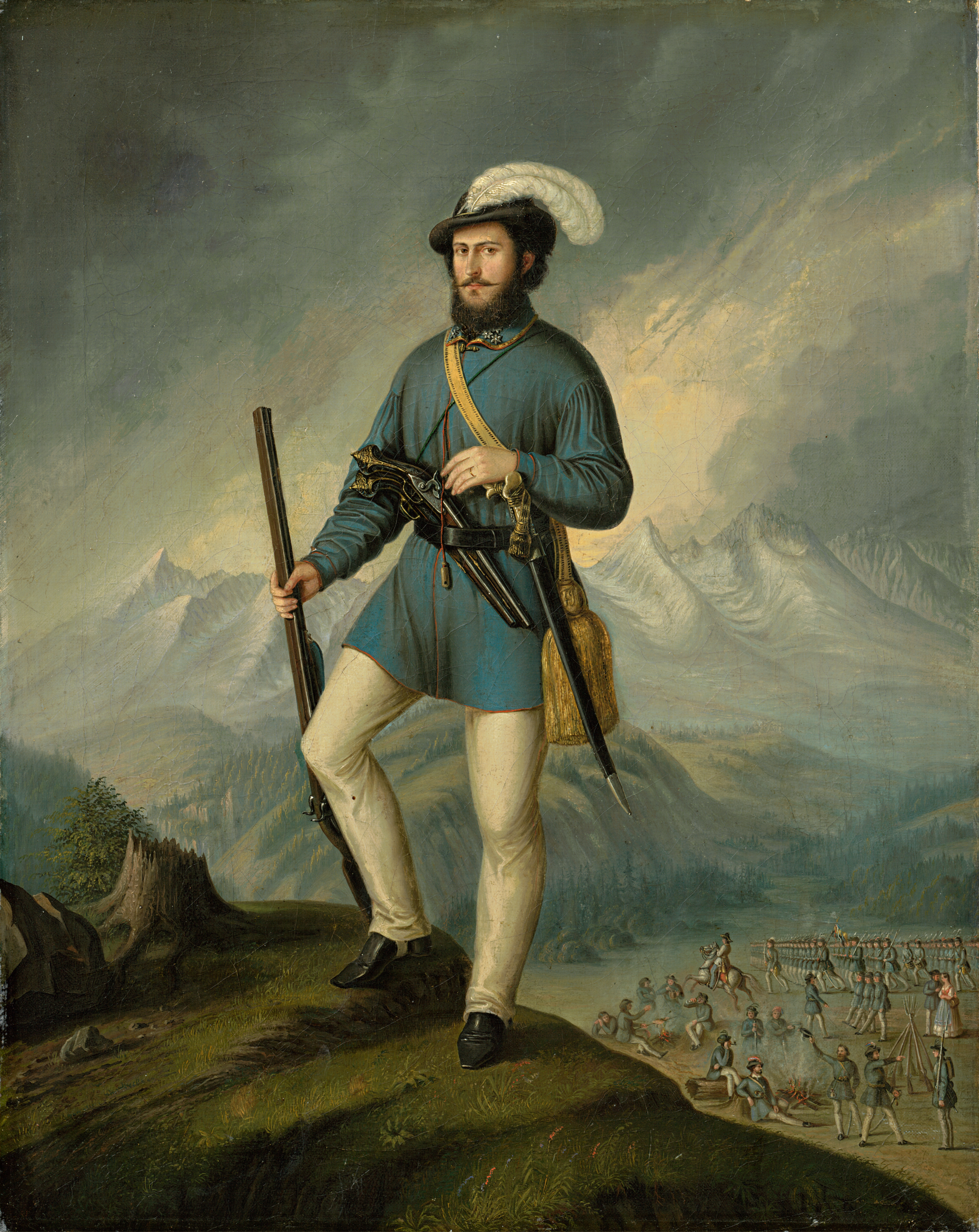 Ján Francisci-Rimavský during Slovak Uprising 1848-1849